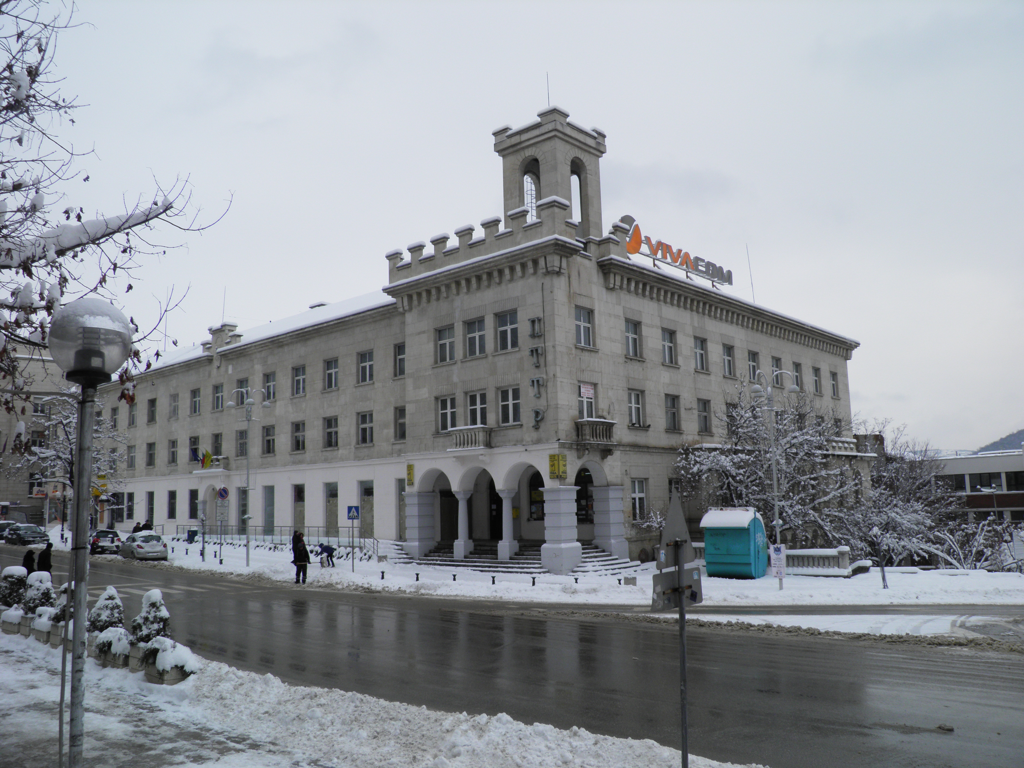 Post office in Veliko Tarnovo,Bulgaria